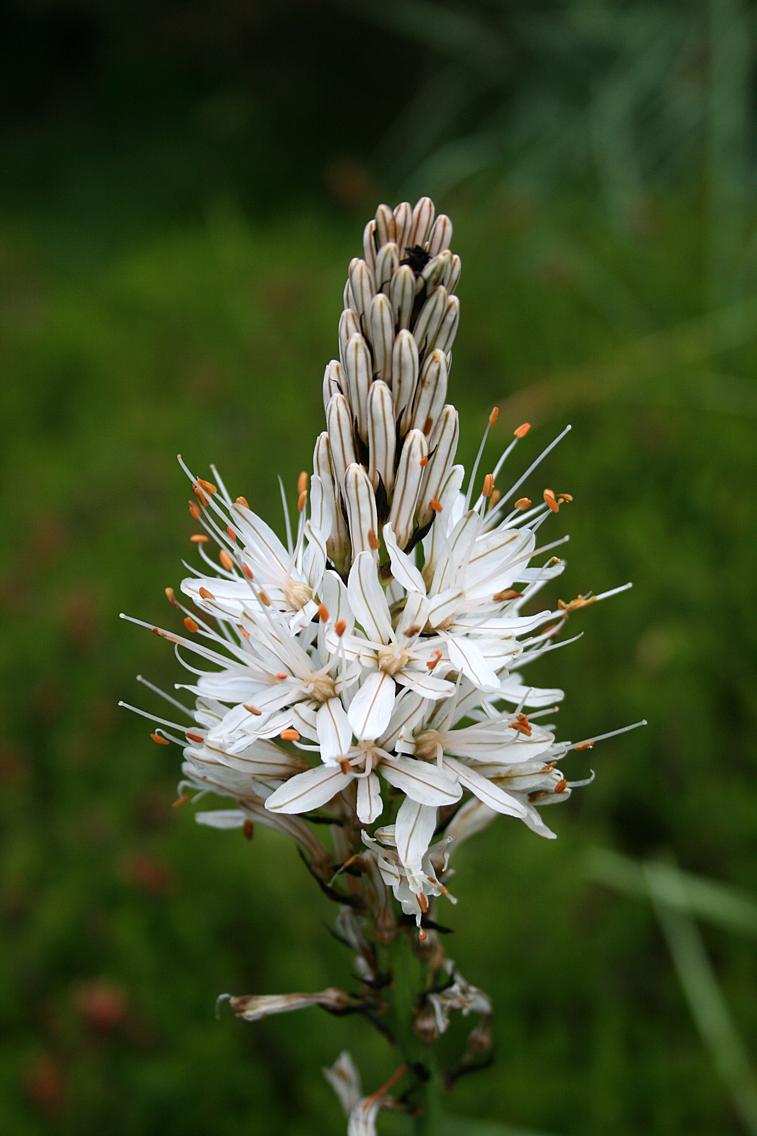 White asphodel